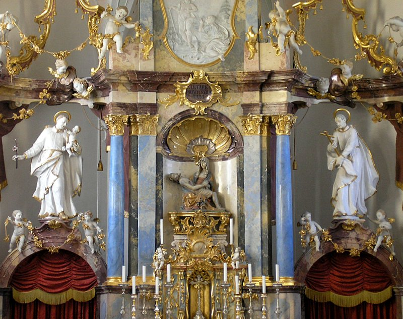 Pilgrimage church Maria Kappel near Schmiechen, Bavaria, Germany). The high altar with the pietà.